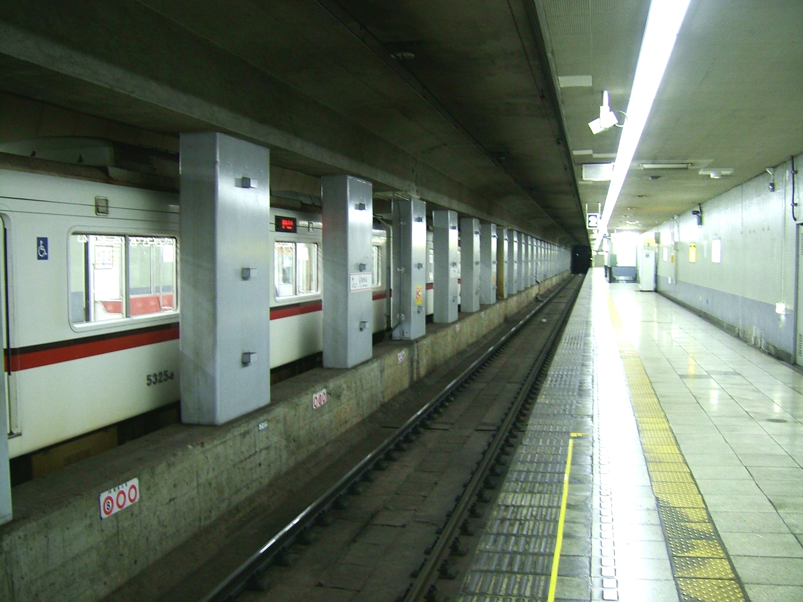 Nishi-Magome Station platform (Toei Asakusa Line)